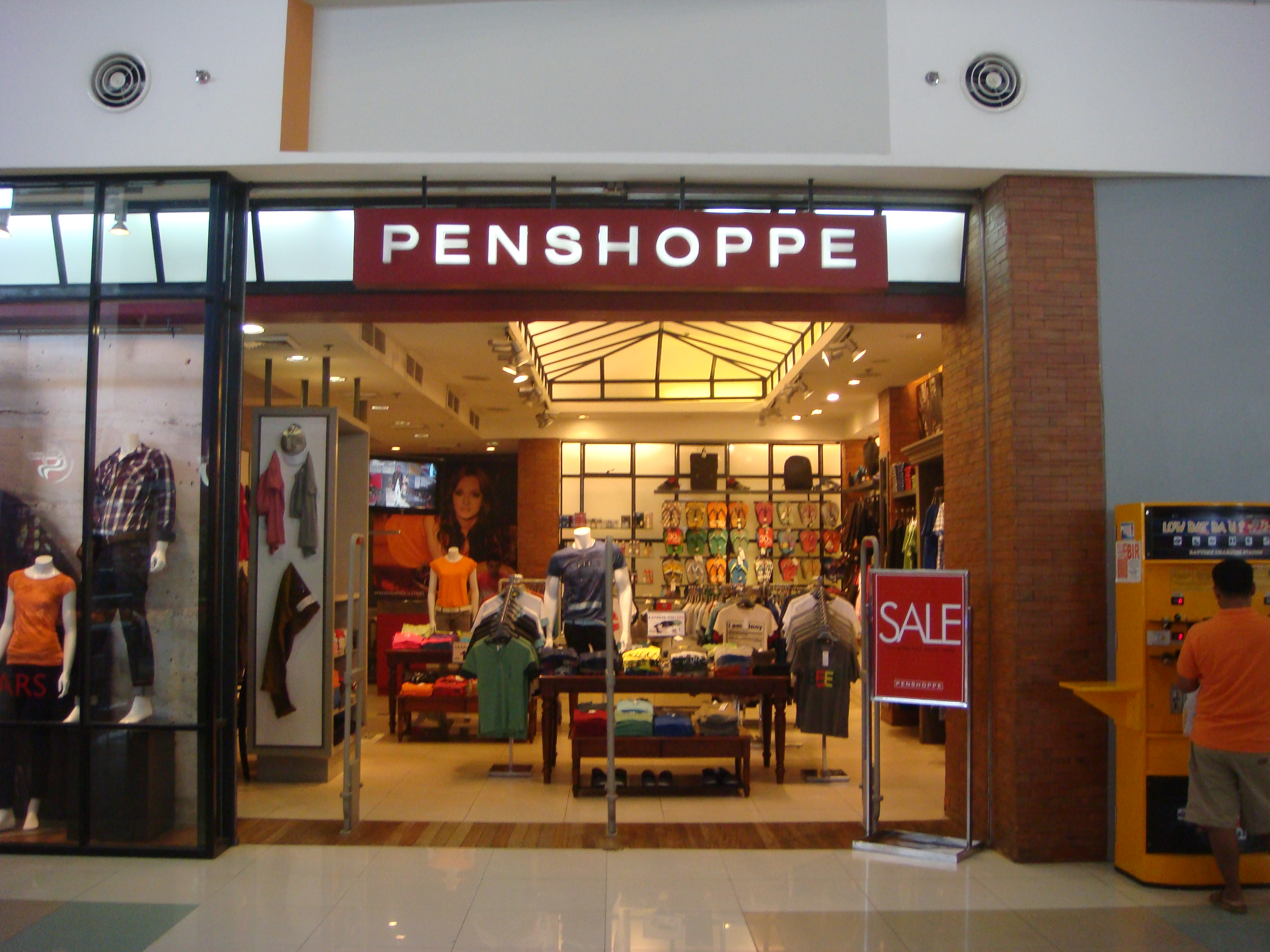 Penshoppe at SM City Baliuag